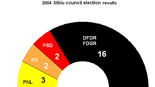 own work